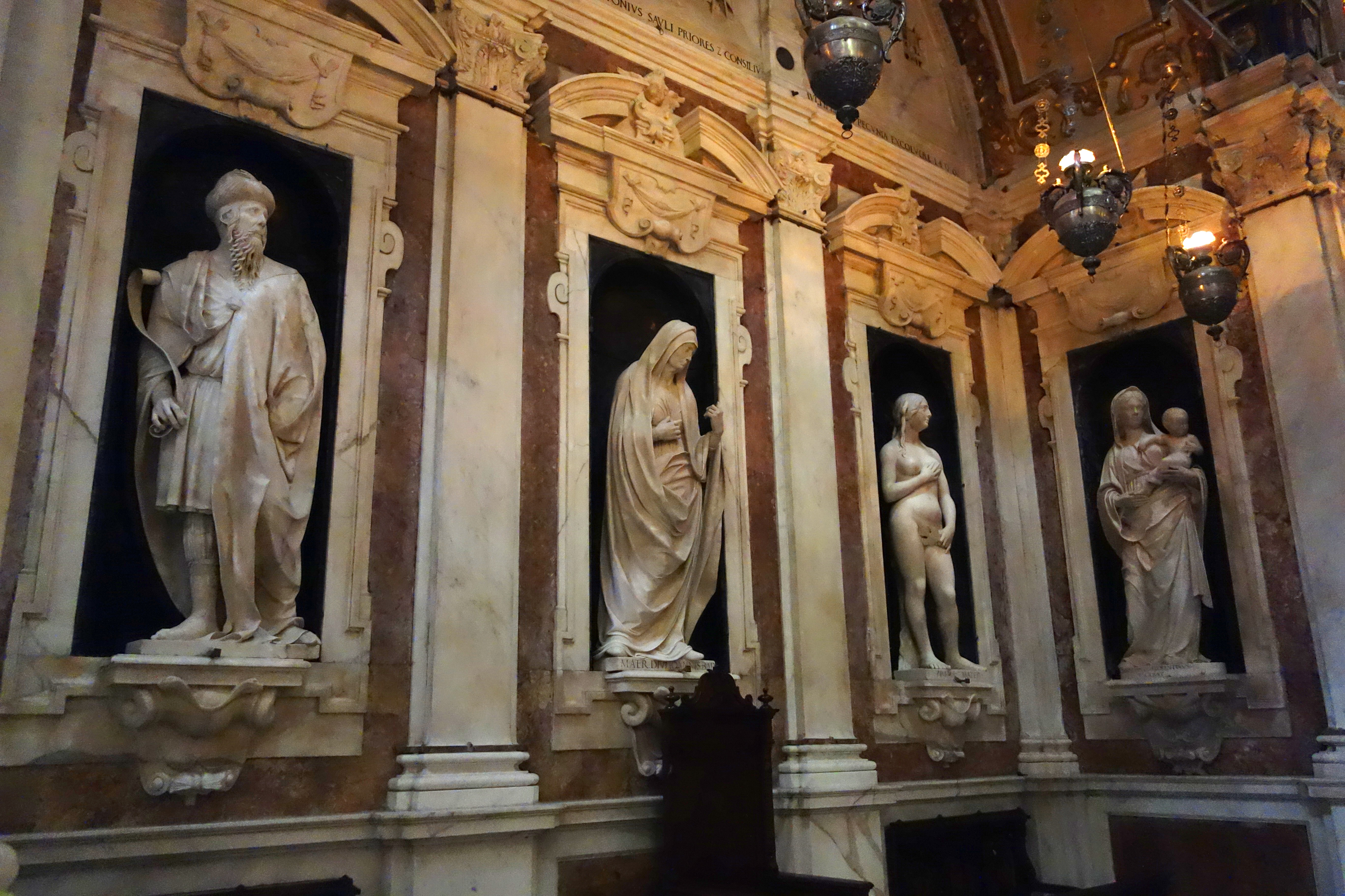 work in the Cathedral San Lorenzo, Genoa, Italy. This artwork is old enough so that it is in the public domain. Photography was permitted in the cathedral without restriction.